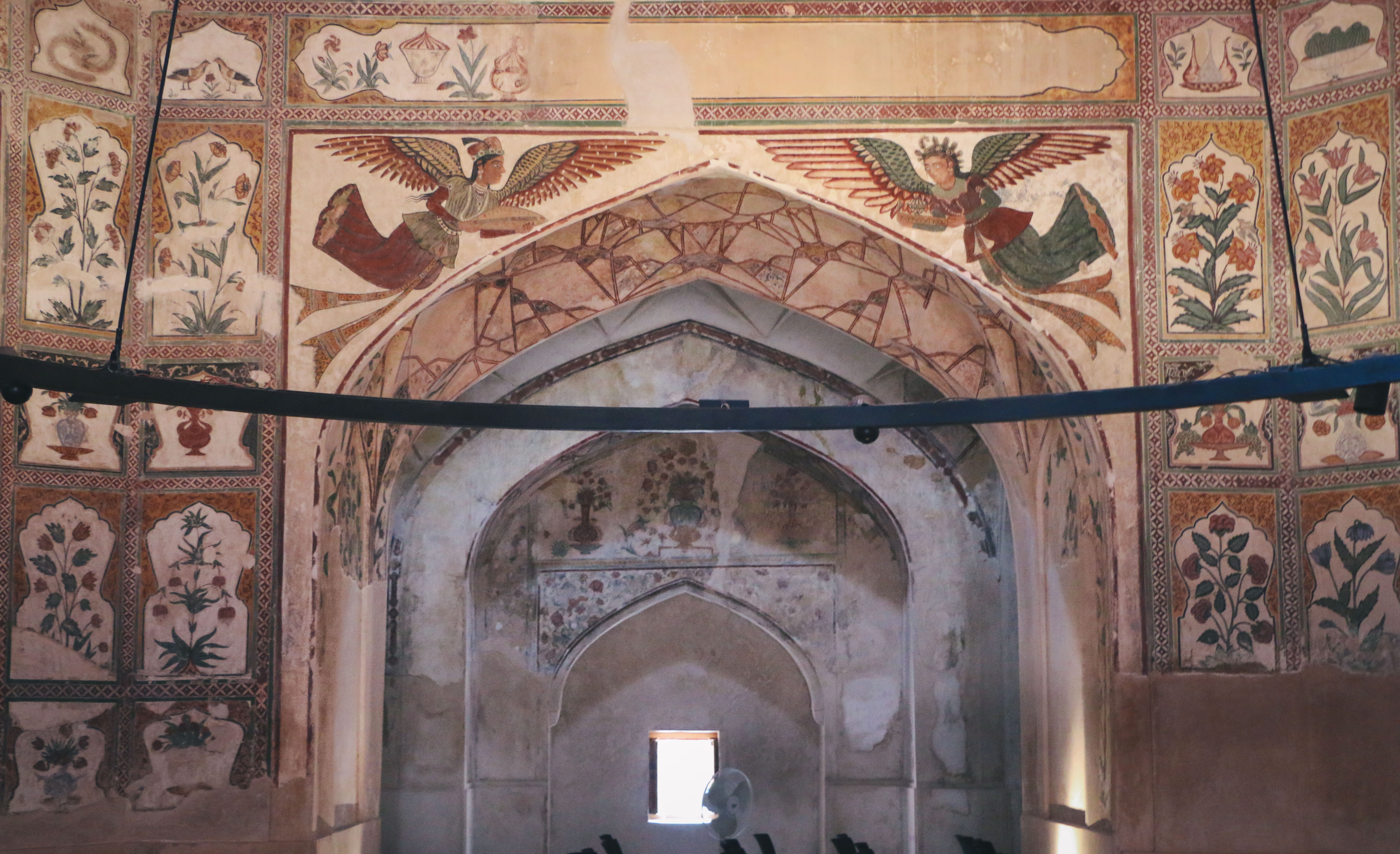 Shahi Hammam (Wazir Khan's hammam) This is a photo of a monument in Pakistan identified as the PB-99